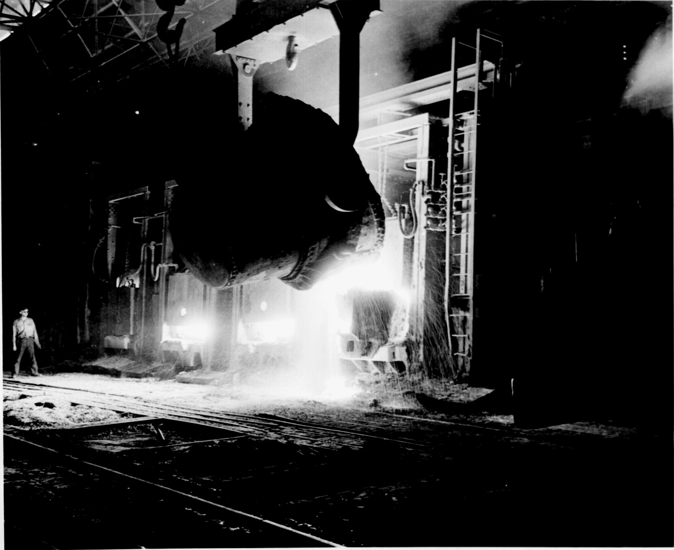 A huge ladle of molten pig iron being poured into an open hearth furnace at the Jones and Laughlin Steel Company, Pittsburgh, May 1942.